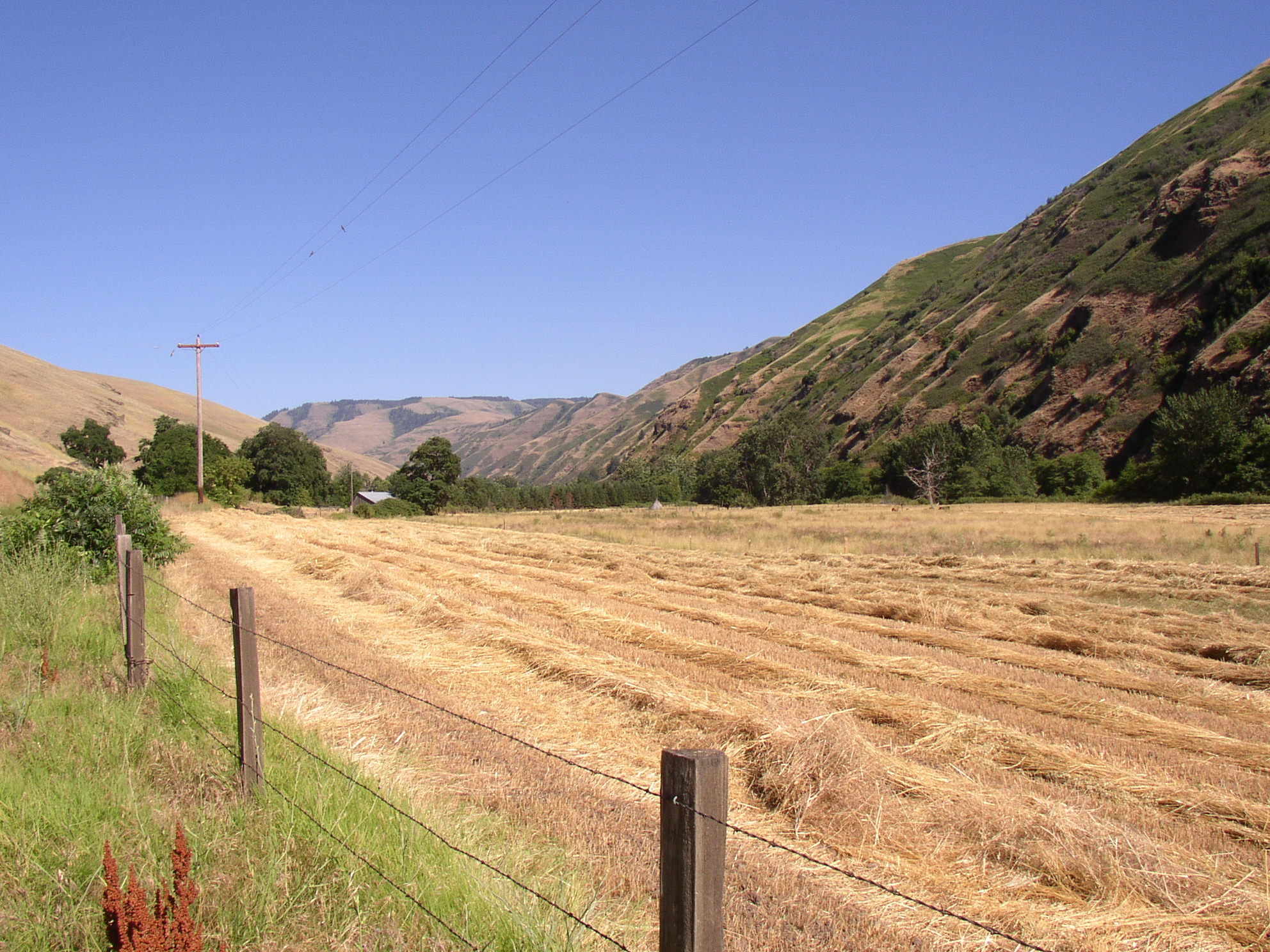 Valley of the North Fork of the Walla Walla River above Milton Freewater in Oregon. Taken July 8, 2006 by uploader. Williamborg 04:23, 9 July 2006 (UTC)